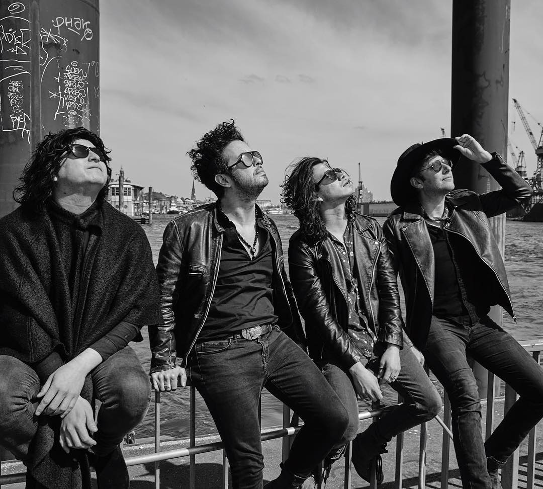 (L to R) Emilio Navaira, Jerry Fuentes, Diego Navaira, Derek James